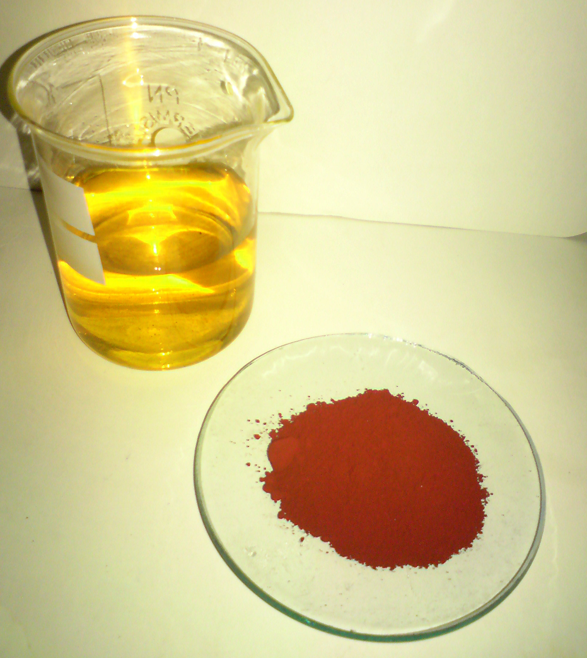 Methyl red, and alcohol solution sample.